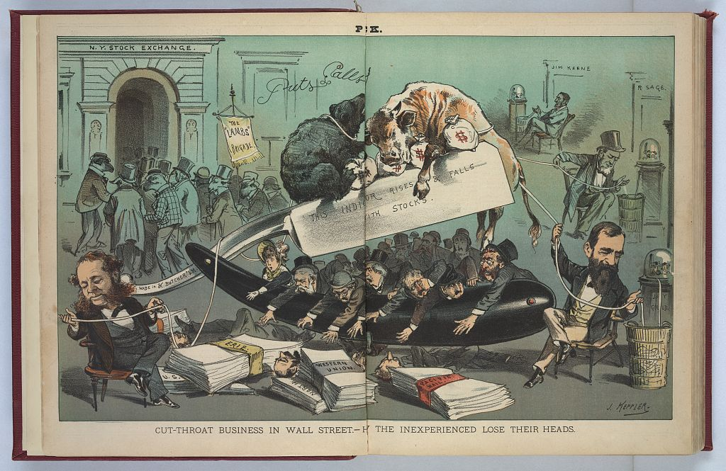 Title: Cut-throat business in Wall Street. How the inexperienced lose their heads Abstract: Print shows William H. Vanderbilt, Jay Gould, Russell Sage and James R. Keene checking ticker tape connected to a large straight-edge razor labeled "Wade in & Butcher'em" and "This Indicator Rises & Falls with Stocks" with a bear and a bull and several money bags labeled "$" balanced on the back of the blade; below, draped over the handle are many investors reaching for bundles of "Pacific Mail, Western Union, [and] Erie" stocks, the blade is poised to drop. In the background another group of investors labeled "The Lambs Brigade" are headed into the "N.Y. Stock Exchange". Physical description: 1 print : chromolithograph. Notes: Illus. from Puck, v. 9 [i.e., 10], no. 235, (1881 September 7), centerfold.; J. Keppler.; Copyright 1881 by Keppler & Schwarzmann.; Title from item. See also the bigger German version: File:Halsabschneiden in Wall Street - Wie die Unerfahrenen ihren Kopf verlieren.jpg